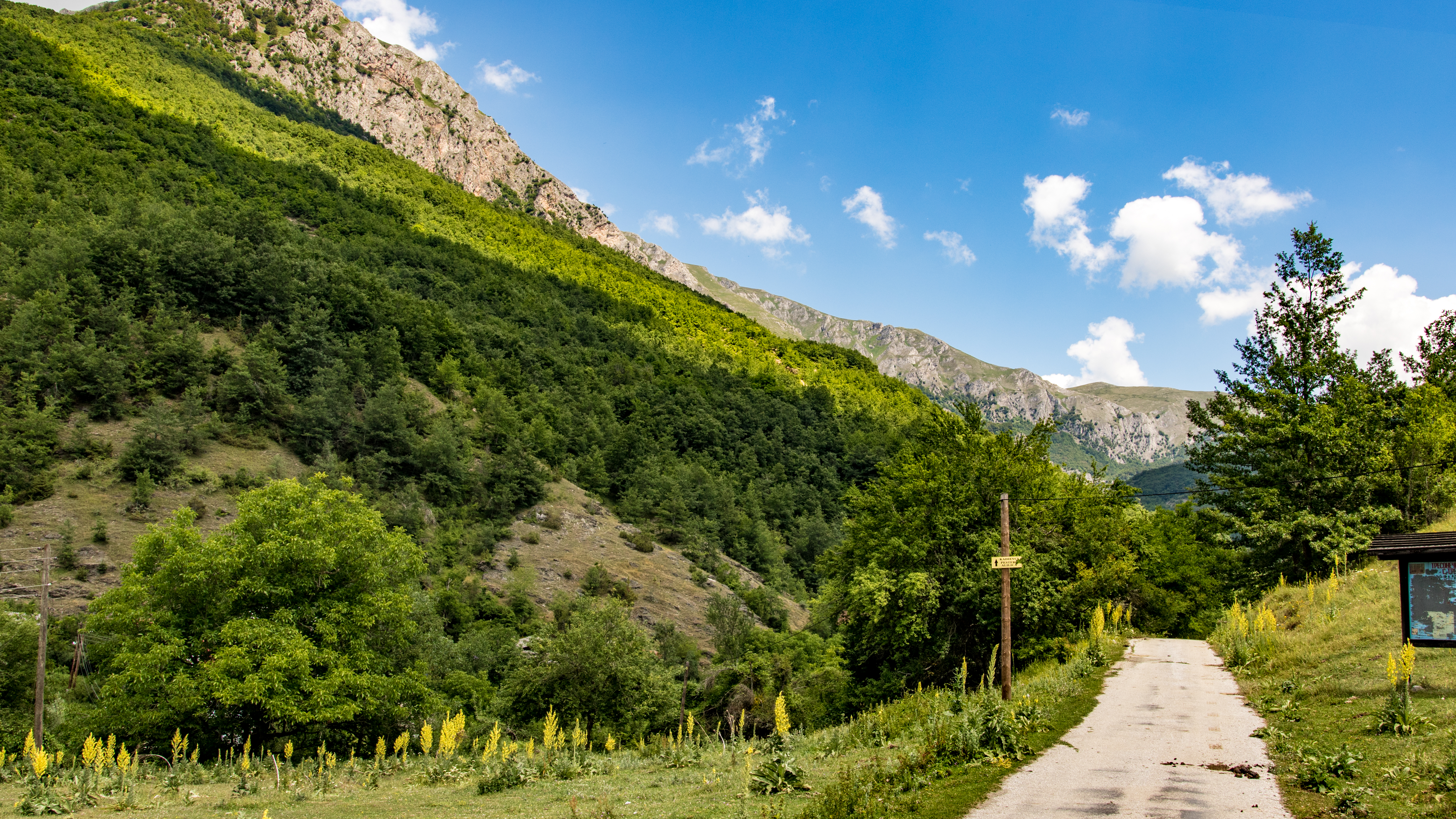 In the village Tresonče